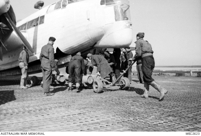 Bone, Algeria. c. 1943. Armourers of No. 458 Squadron RAAF Mk XIV based in Algeria, loading one of the Vickers Wellington aircraft with depth charges. See also : File:458 Squadron RAAF Wellington loading depth charges Bone Algeria WWII.jpg File:Loading depth charges into 458 Squadron RAAF Wellington Algeria WWII AWM MEC2625.jpg File:Loading depth charges into 458 Squadron RAAF Wellington Algeria WWII AWM MEC2626.jpg